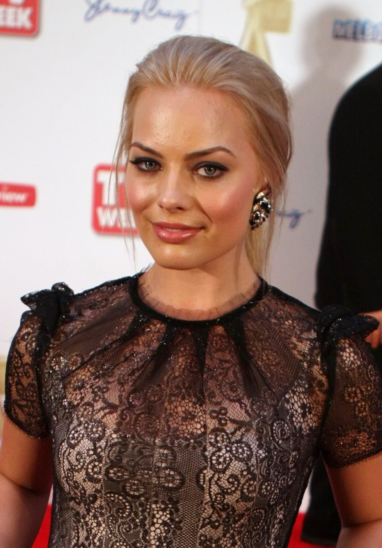 Australian actress Margot Robbie at the 2011 TV Week Logie Awards.